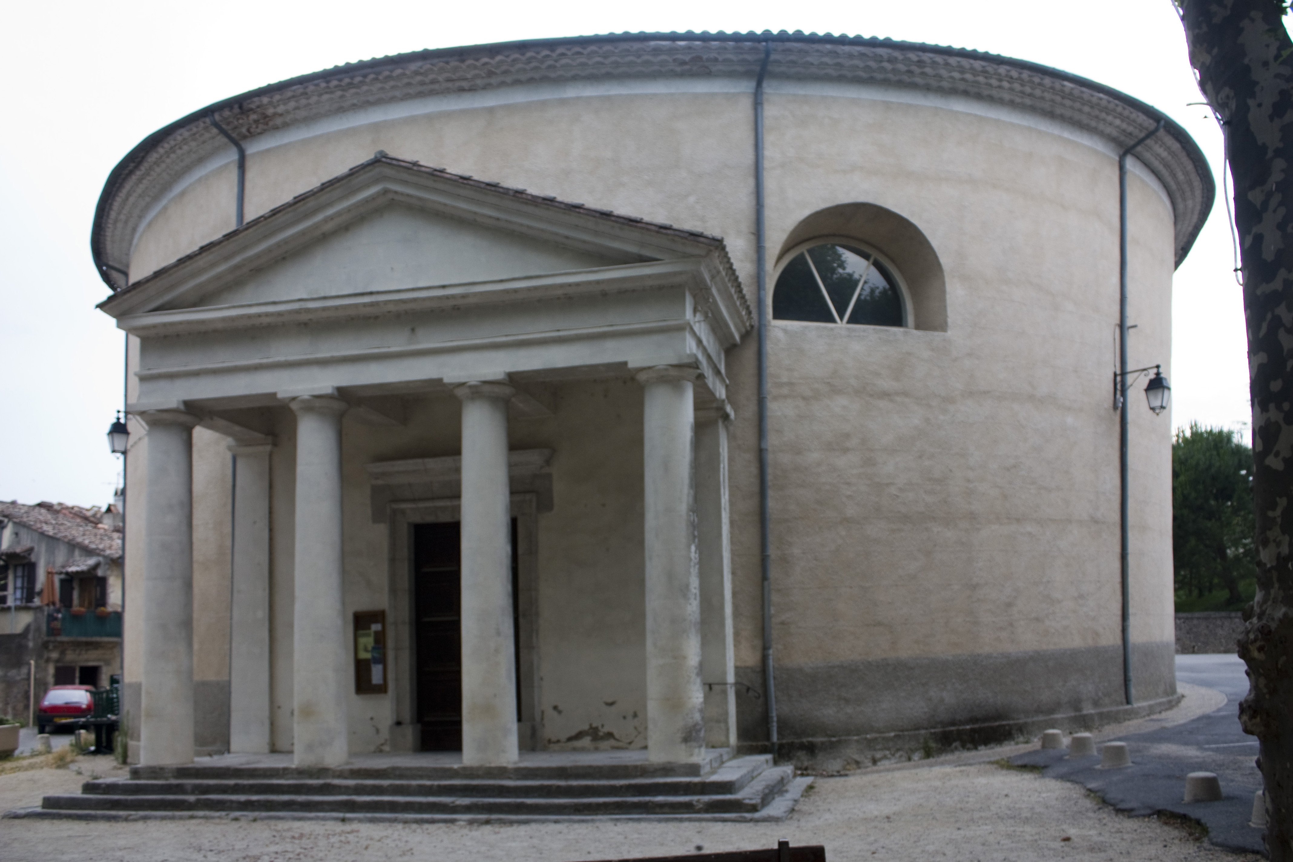 Lasalle's protestant, remarkable for its very particular semi-cylindrical shape.